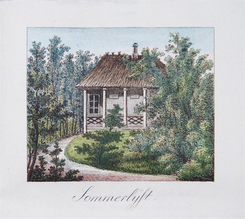 Engraving by Johann Friderich Clemens, drawing by Johan Henrik Hanck - At Sanderumgaard, Odense, Denmark, Johan Bülow created a romantic garden between 1793 and 1828